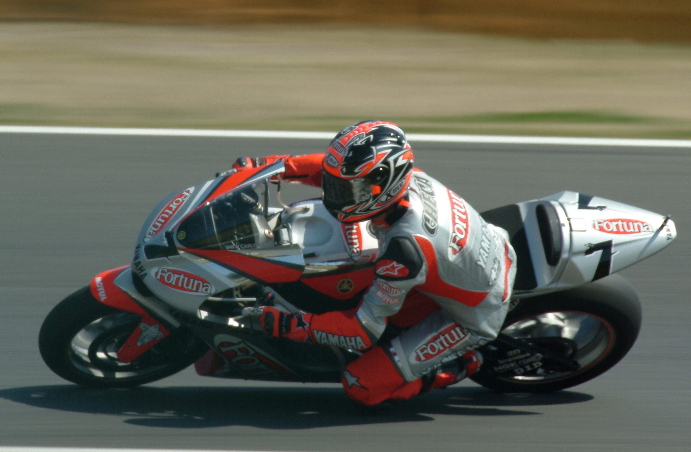 Carlos Checa, in Japanese Grand Prix 2003